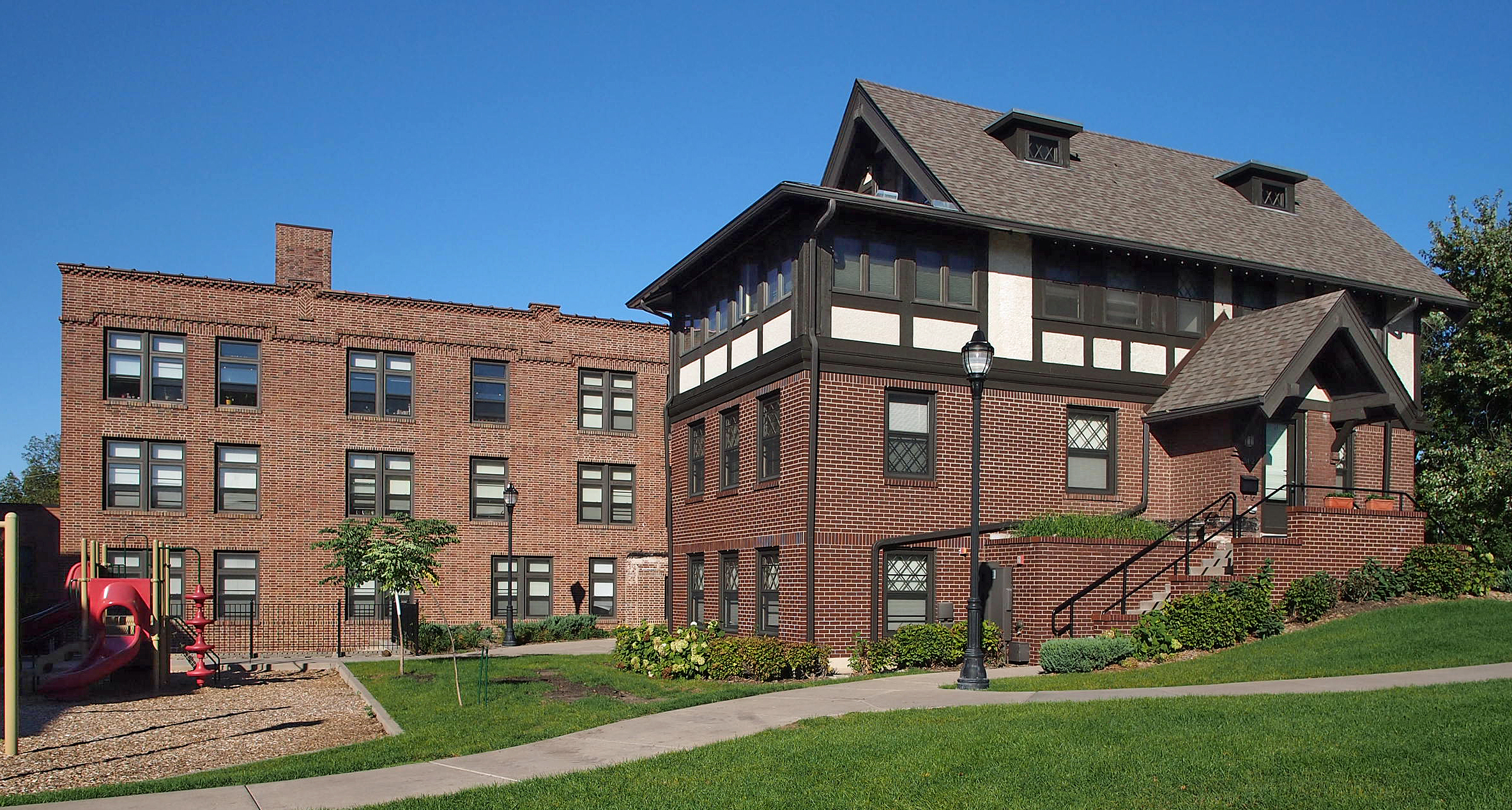 Two buildings of the former Ripley Memorial Hospital, 300 Queen Ave N, Minneapolis, Minnesota, USA. Viewed from the southeast.